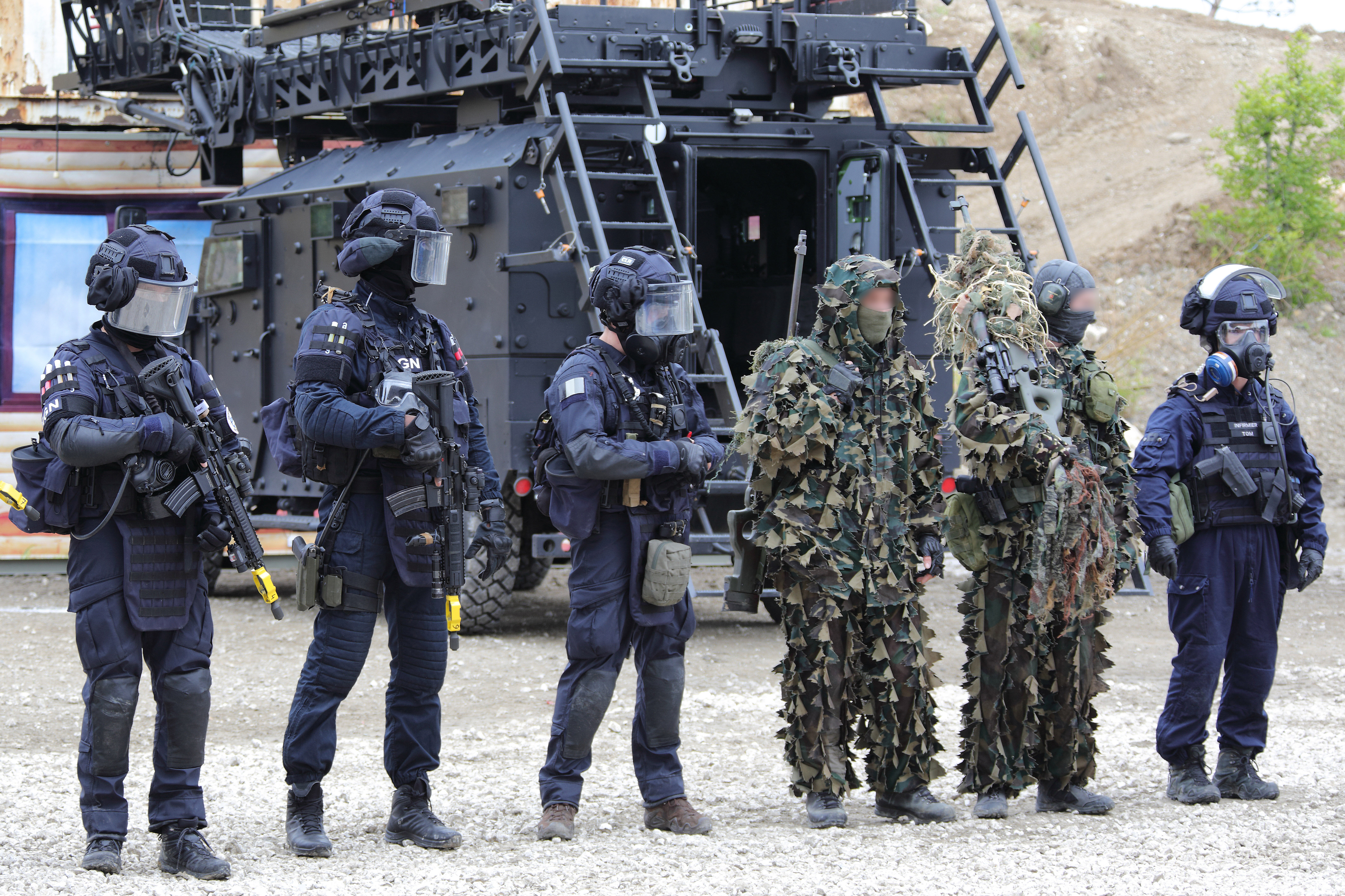 GIGN assault team, precision shooters and medic during a demo. June 2018